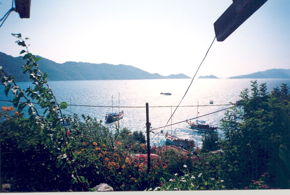 Kekova (Shot in September 2005)